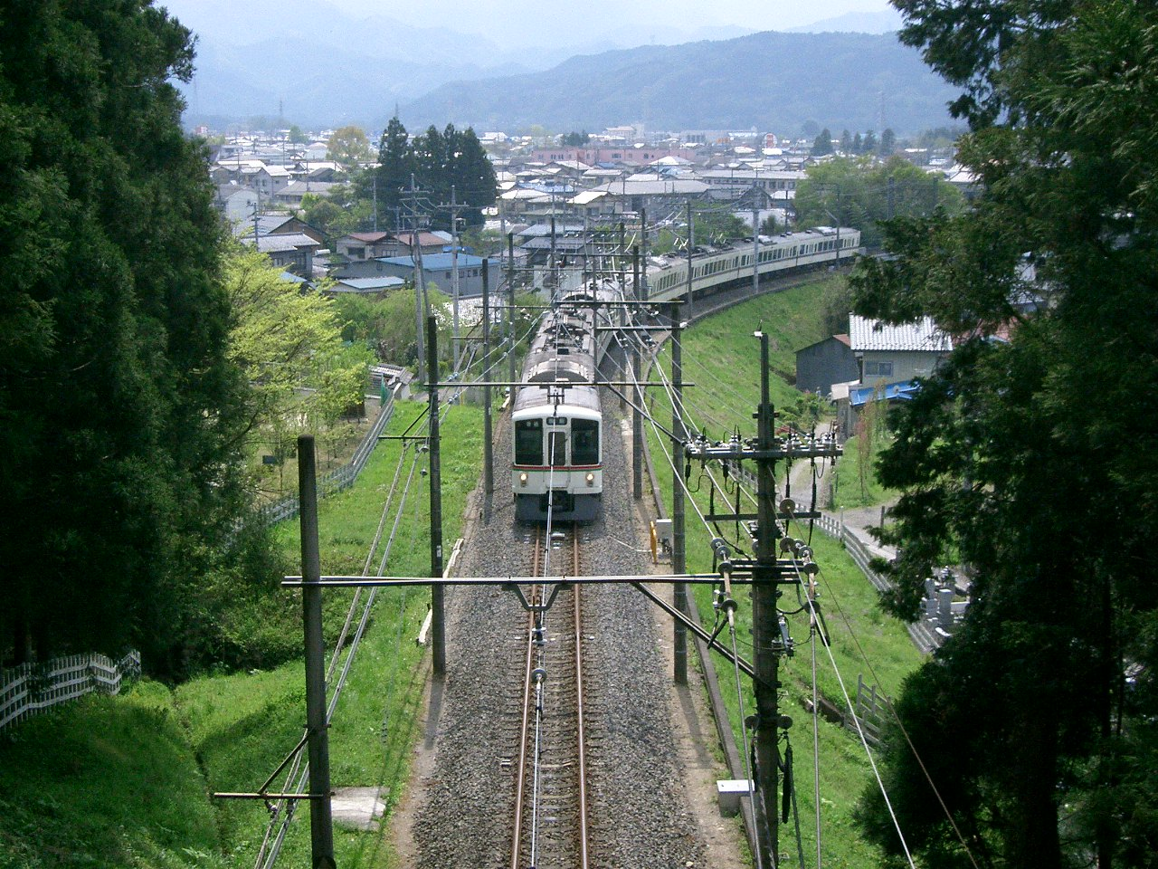 [Probably] Chichibu City, Saitama Prefecture. Seibu-Chichibu Line at the mouth of the Hitsuji-yama Tunnel.